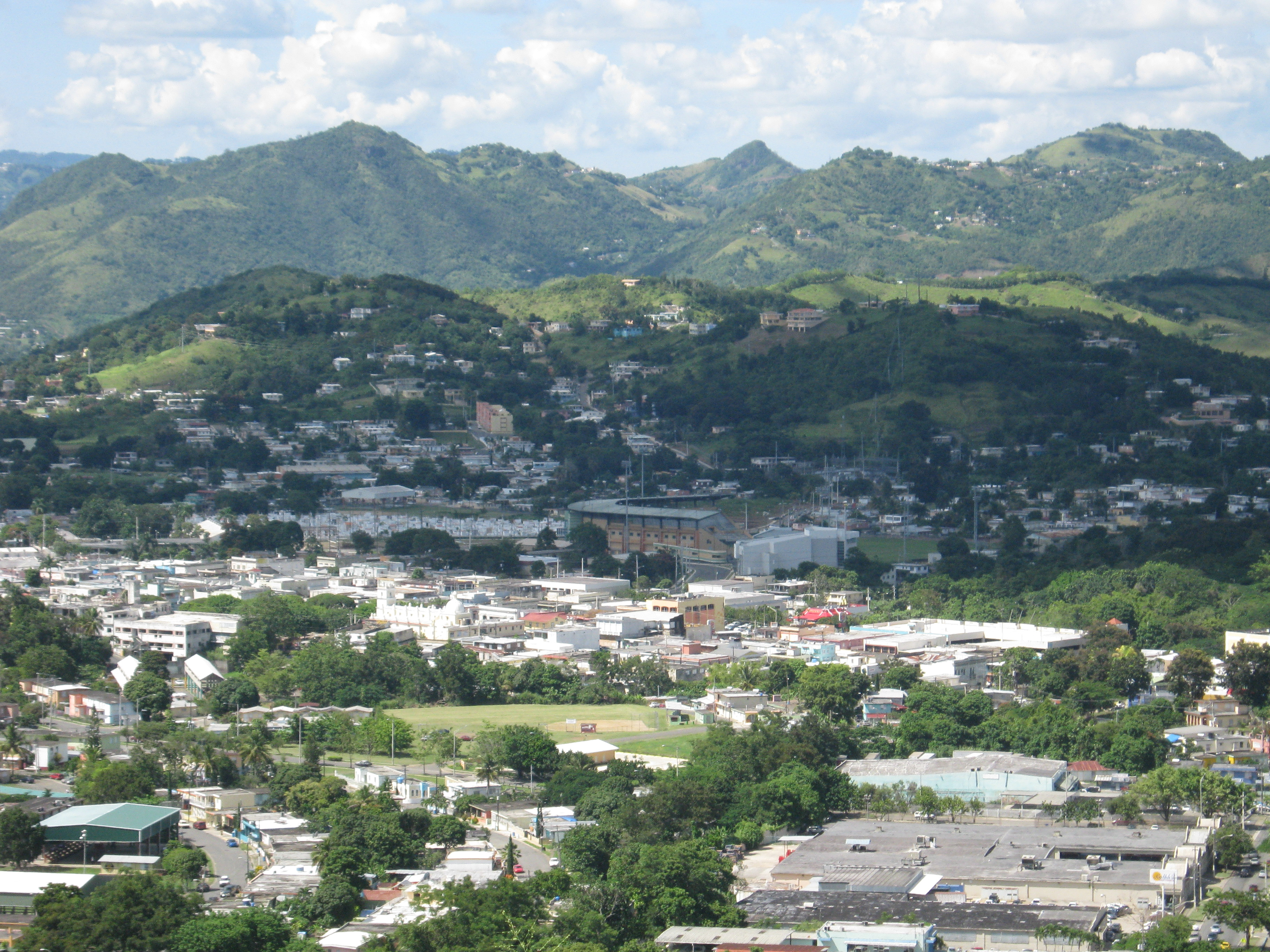 CAYEY